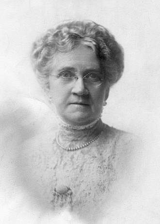 Portrait of Mary E. Hollister Banning (Mrs. Phineas Banning). Mrs. Banning looks very elegant in a white high-collar lace dress, pearl choker, and cameo. Historical Notes: Mary E. Hollister, born in Ohio in 1848, was a wealthy heiress from a prominent ranch family. She married General Phineas Banning in 1870 - two years after Banning's first wife, Rebecca died after giving birth to their eighth child. Mary and Phineas would eventually have three children of their own, three girls: Mary H. Banning (1871), Lucy L. Banning (1873), and Ellen M. Banning (1874). Mrs. Banning passed away in Los Angeles, though the date is unknown.